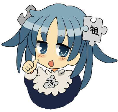 Simple version of Wikipe-tan